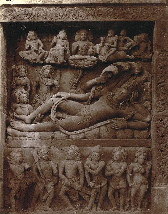 From the source, Photograph of a sculpture panel on the south face of the Dashavatara temple, Deogarh taken by Joseph David Beglar in the 1870s. Deogarh is located in the modern state of Madhya Pradesh. The Dashavatara Temple at Deogarh was built during the 6th Century and is home to some of the finest examples of art from the Gupta period found anywhere in India. The temple is in a ruinous condition, however the wall panels adorned with depictions of different myths related to Vishnu are well preserved. The whole structure is raised on a platform which is ornamented with scenes from the Ramayana and other stories from the life of Krishna. The panel shown in this photograph comes from the temple and represents Vishnu sleeping on the serpent Ananta with the five Pandava warriors and Draupadi beneath.